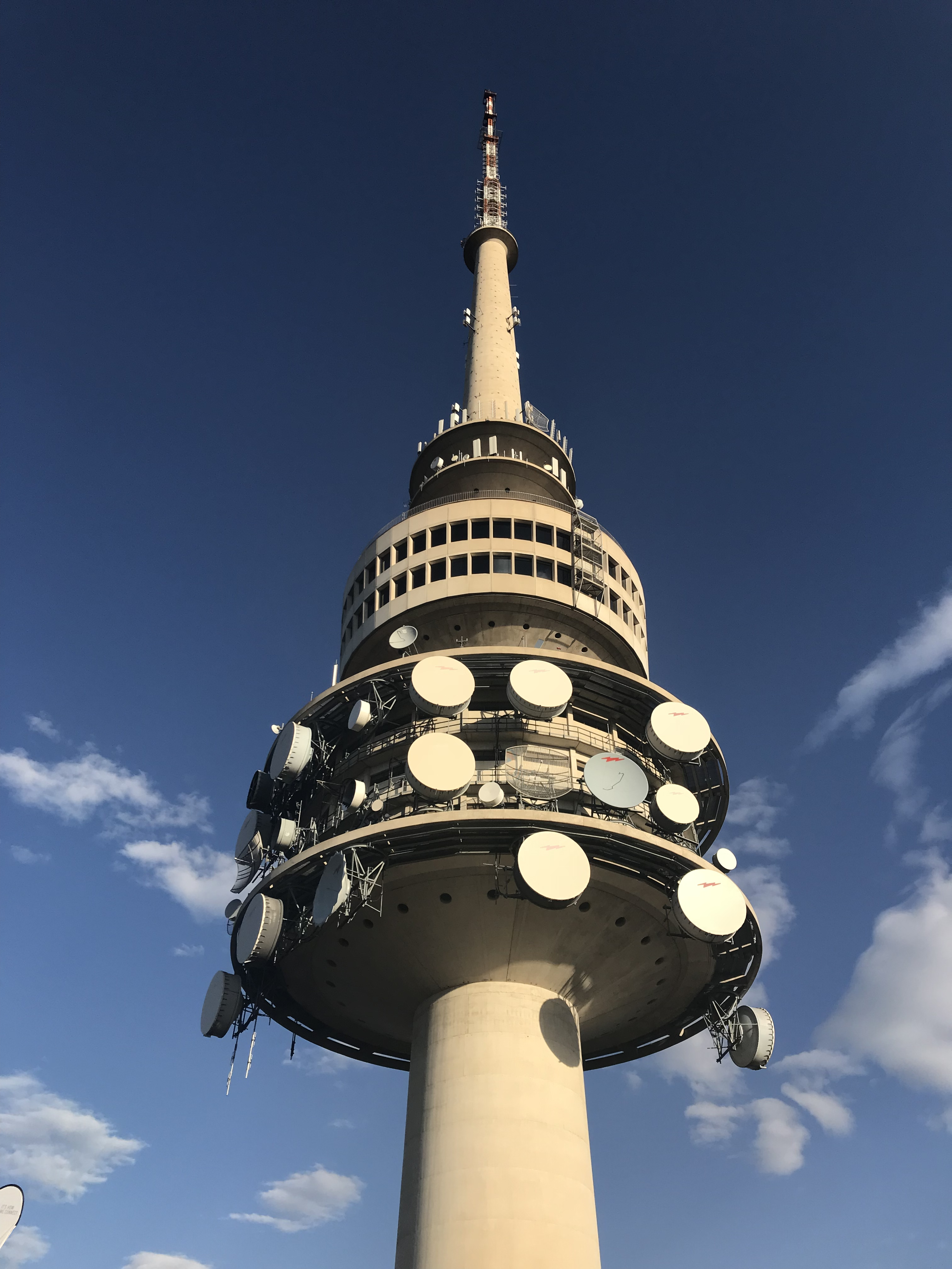 The Telstra tower in canberra